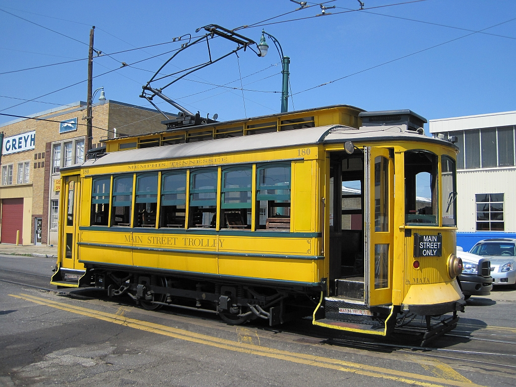 Uptown Memphis, Tennessee. Memphis Area Transportation Authority (MATA) Trolley.